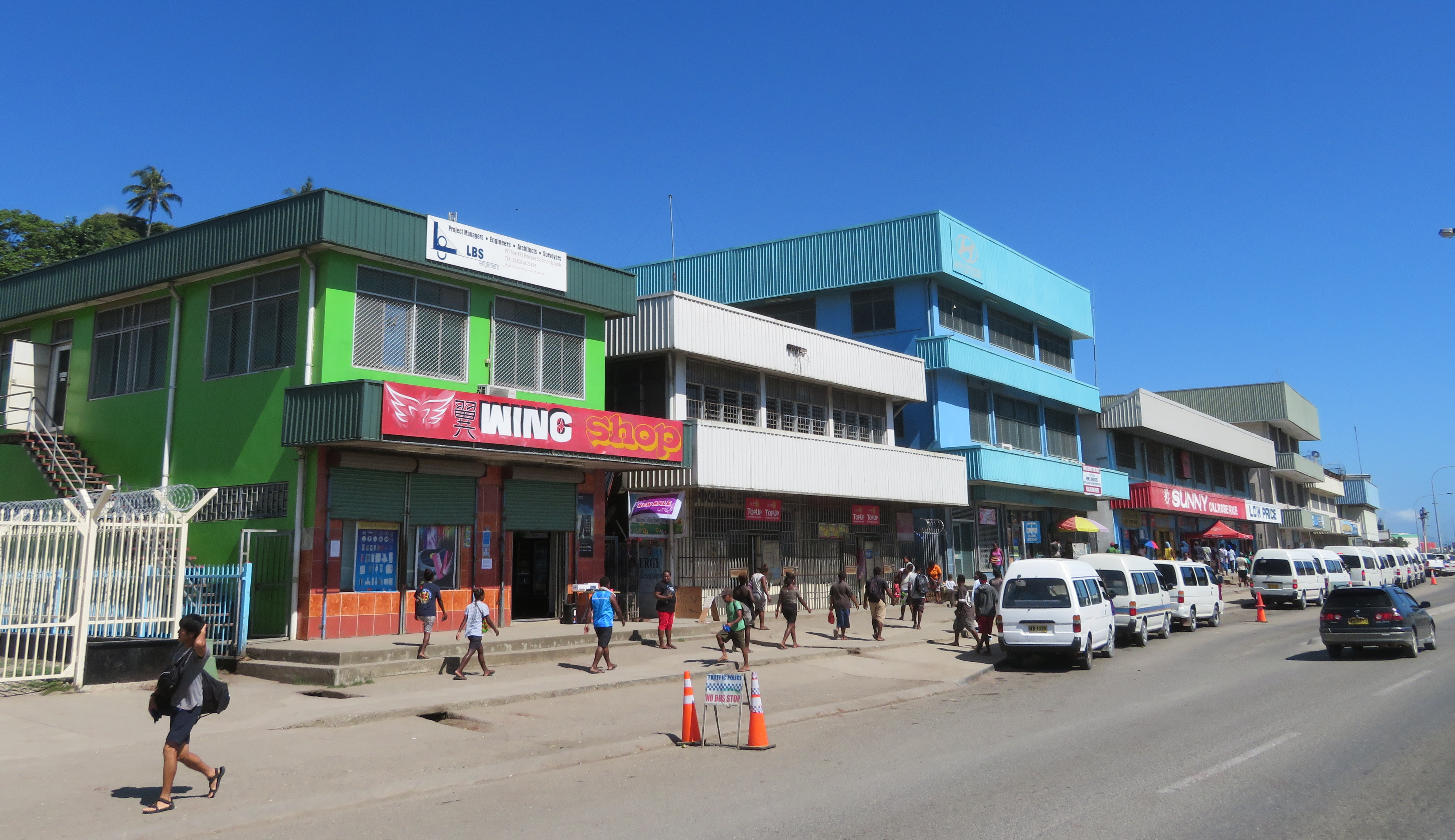 Mendana Avenue, Honiara, Solomon Islands